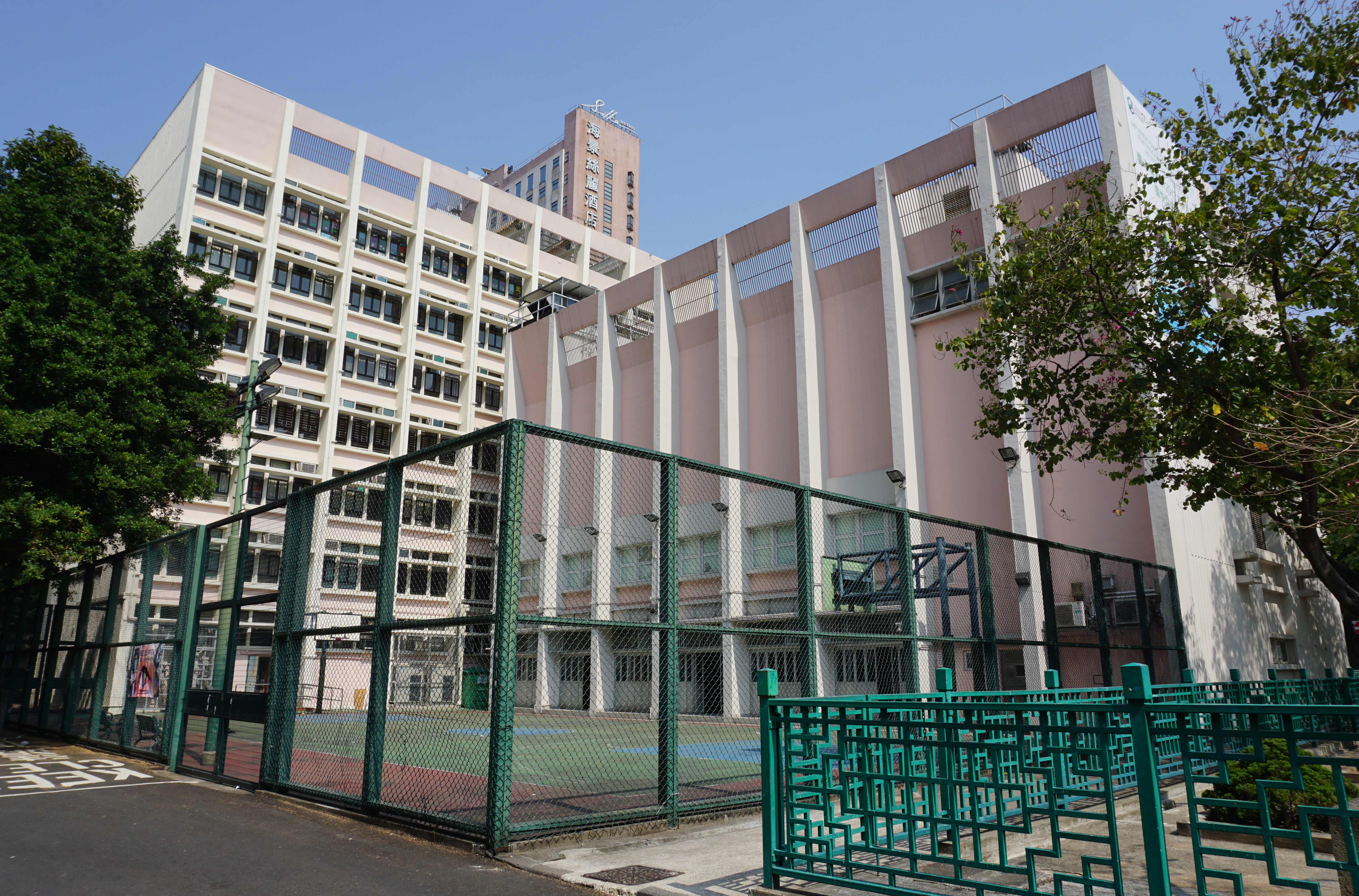 Henry G. Leong Community Centre in Yau Ma Tei, Hong Kong.